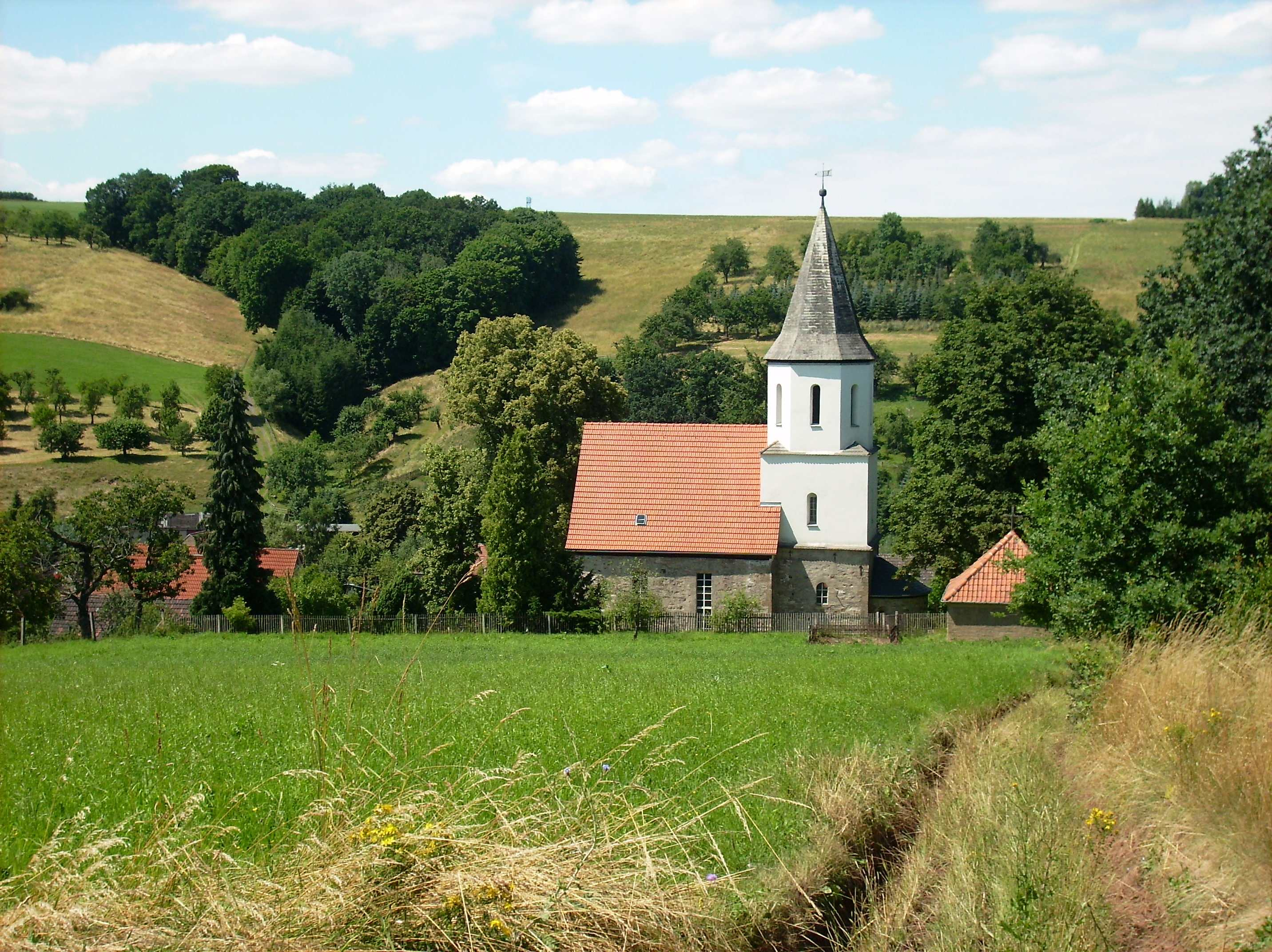 Seifartsdorf church (Silbitz, district of Saale-Holzland-Kreis, Thuringia)